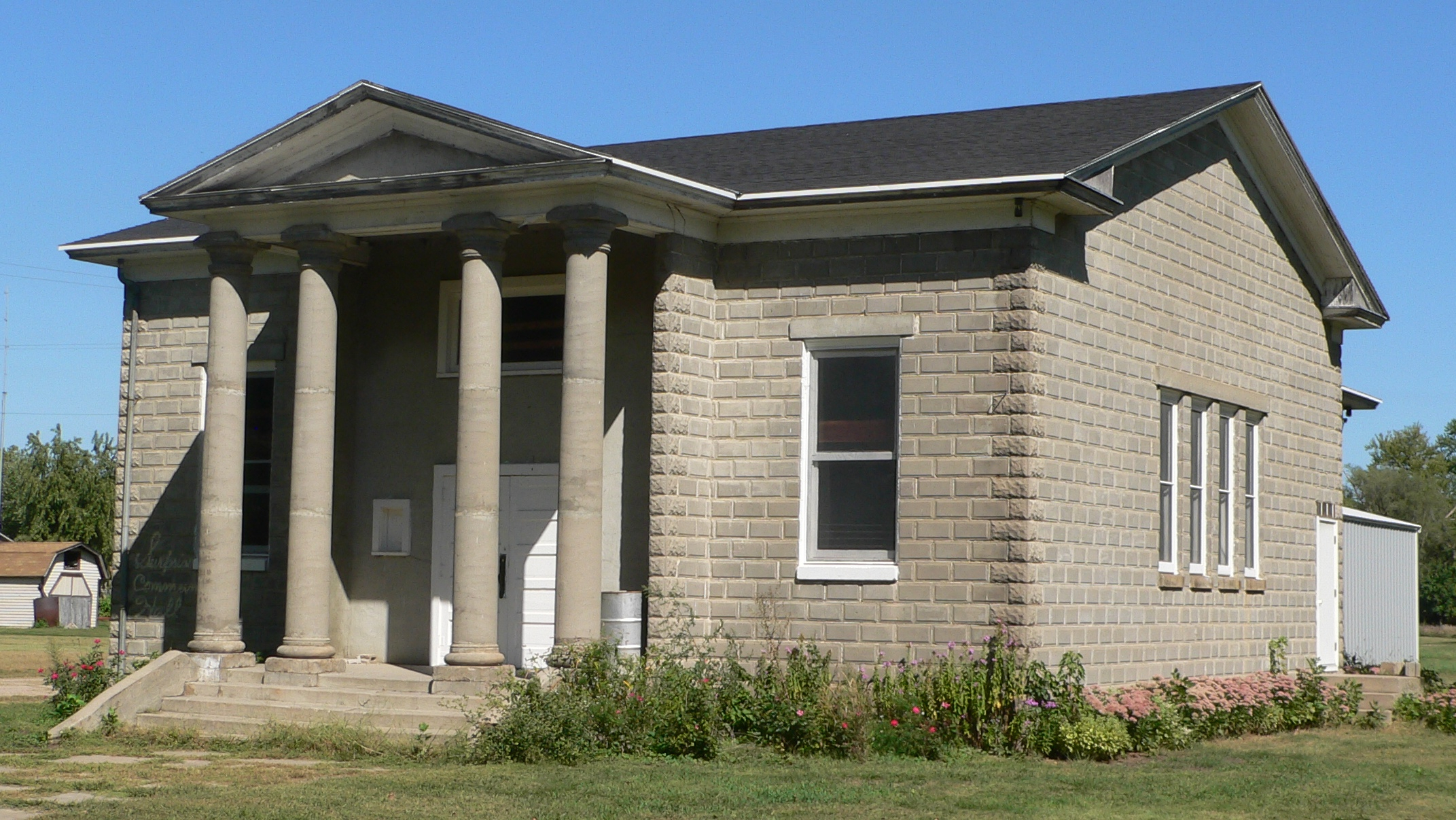 Surprise Opera House, located at the southeast corner of River and Miller in Surprise, Nebraska; seen from the southwest.